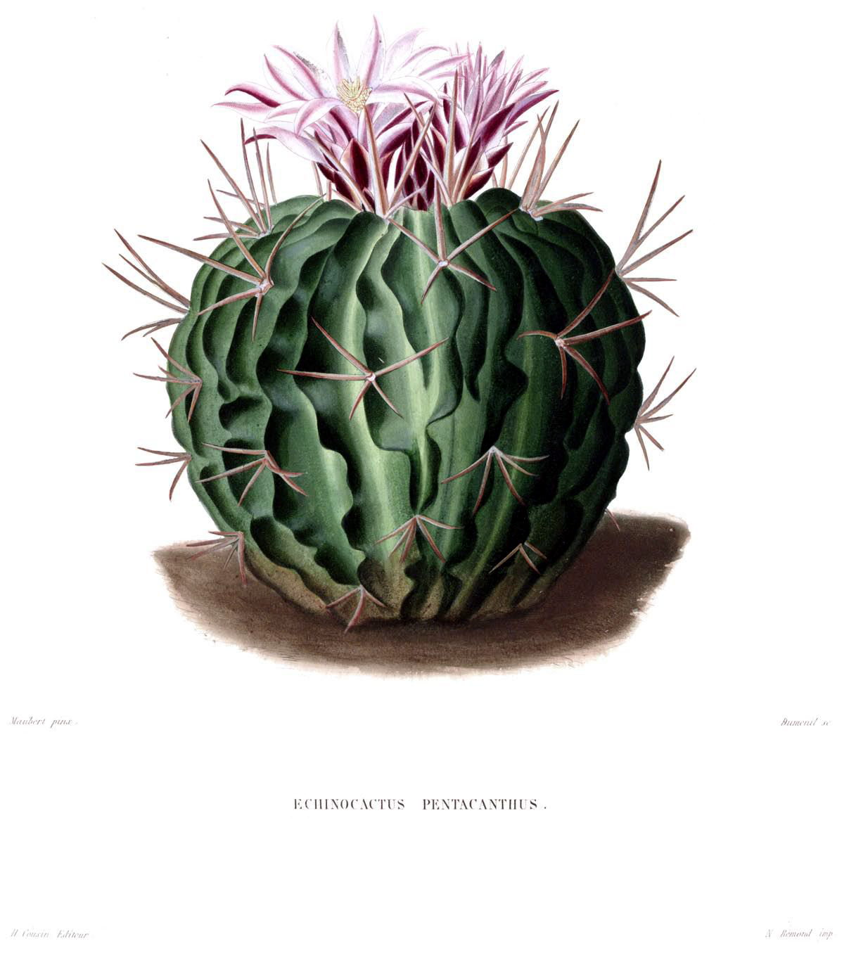 Plate from book